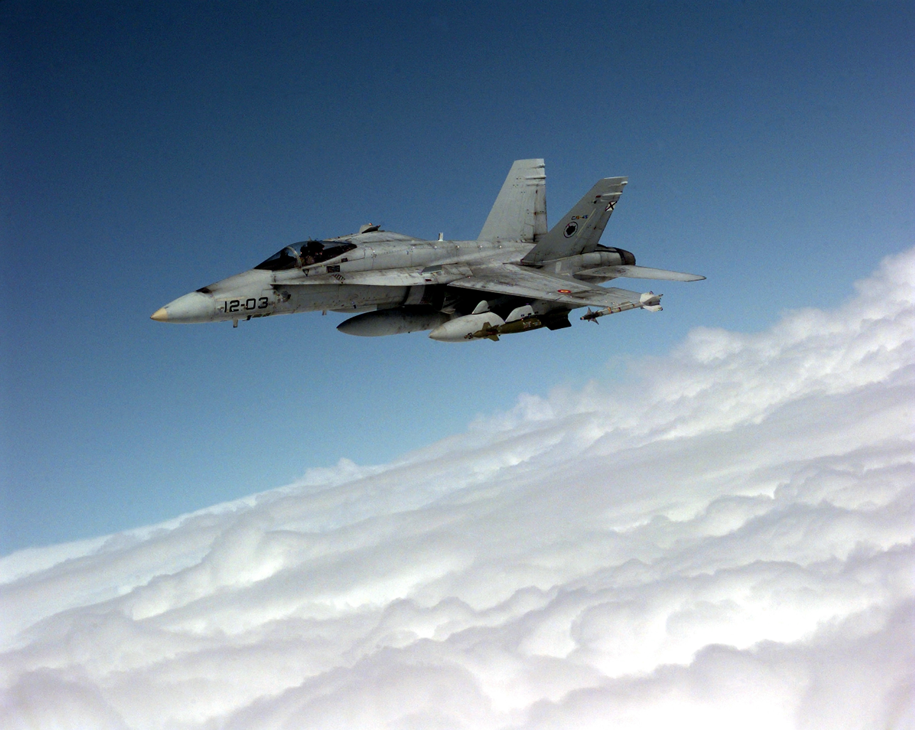 A Spanish Air Force EF-18A Hornet moves into position behind an Air Combat Command KC-135R Stratotanker (not shown) of the 22nd Air Refueling Squadron during a NATO Operation Allied Force Combat Mission. The versatility of the KC-135 Stratotanker is clearly demonstrated by its ability to adapt quickly to each mission. This mission required that the tanker attach a refueling drogue (not shown) to the end of its refueling boom (not shown) so that NATO aircraft fitted with a refueling probe could refuel. The EF-18A Hornets carries AIM-9 Sidewinder missiles on the wingtip rails, MK 82 500 pound Laser Guided Bombs in the middle of the wings and 350 gallon underwing drop tanks to extend mission range. The KC-135R is assigned to the 366th Air Expeditionary Wing / 22nd Air Refueling Squadron and is deployed to Royal Air Force Fairford to support NATO Operation Allied Force. The EF-18A Hornet is assigned to Ala 12, or 12 Squadron, at Torrejon Air Base Spain but is flying mission from its deployed base of Aviano Air Base, Italy. Location: RAF FAIRFORD, GLOUCESTERSHIRE ENGLAND / GREAT BRITAIN (ENG)